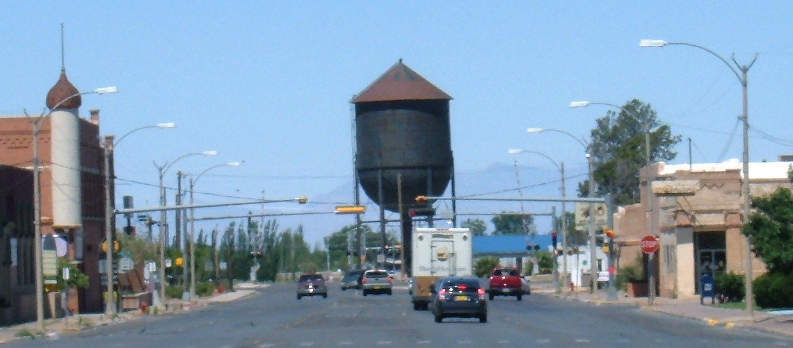 Railroad water tower in Alamogordo, New Mexico, looking west down Tenth Street. The tower is in the median just west of White Sands Boulevard. The Avis Building with its distinctive onion dome is on the left.